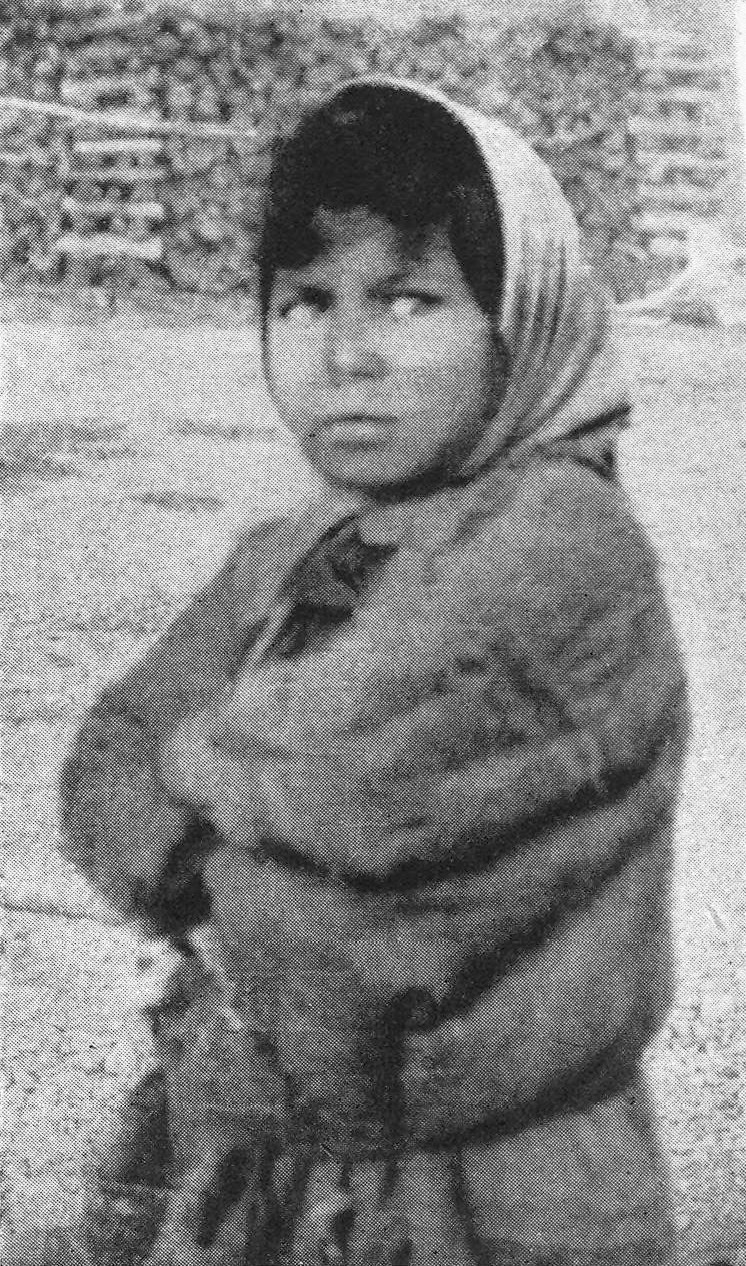 Yenisei-Ostiak boy